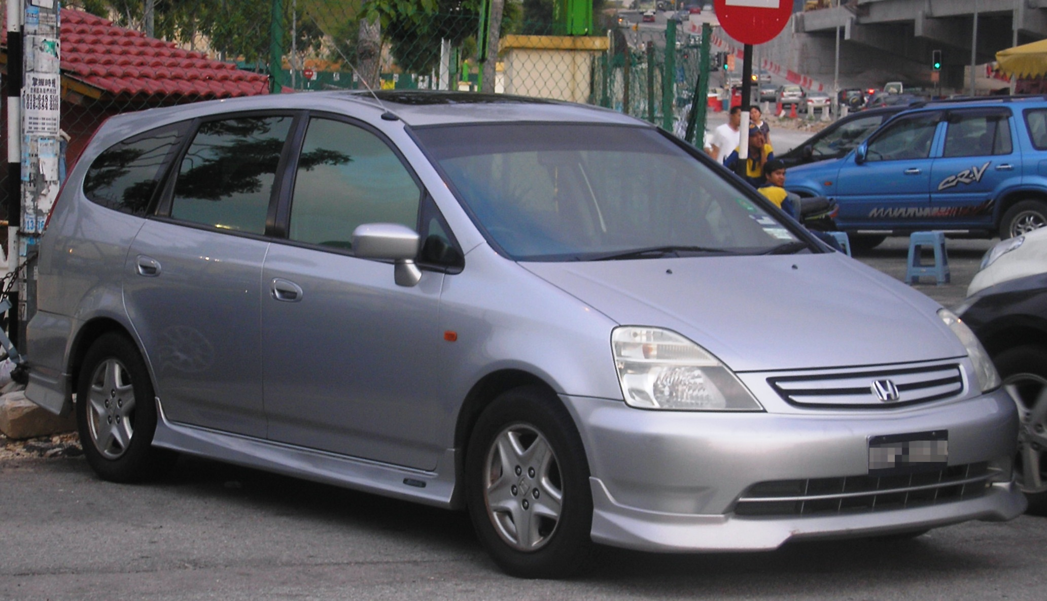 Front quarter view of a first generation Honda Stream, in Serdang, Selangor, Malaysia.